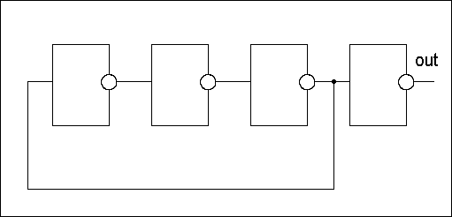 A diagram of an electronic ring oscillator, a simple type of oscillator built using an odd number of cascaded inverters and a feedback loop.